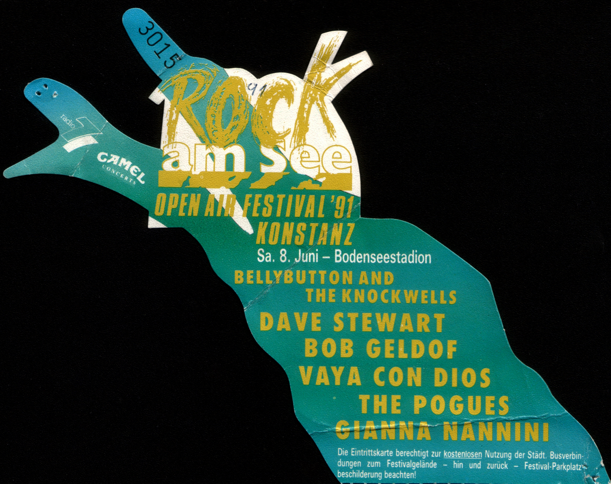 The Pogues concert ticket for the concert Rock am See Open Air Festival on 08.06.1991 in Konstanz, Germany